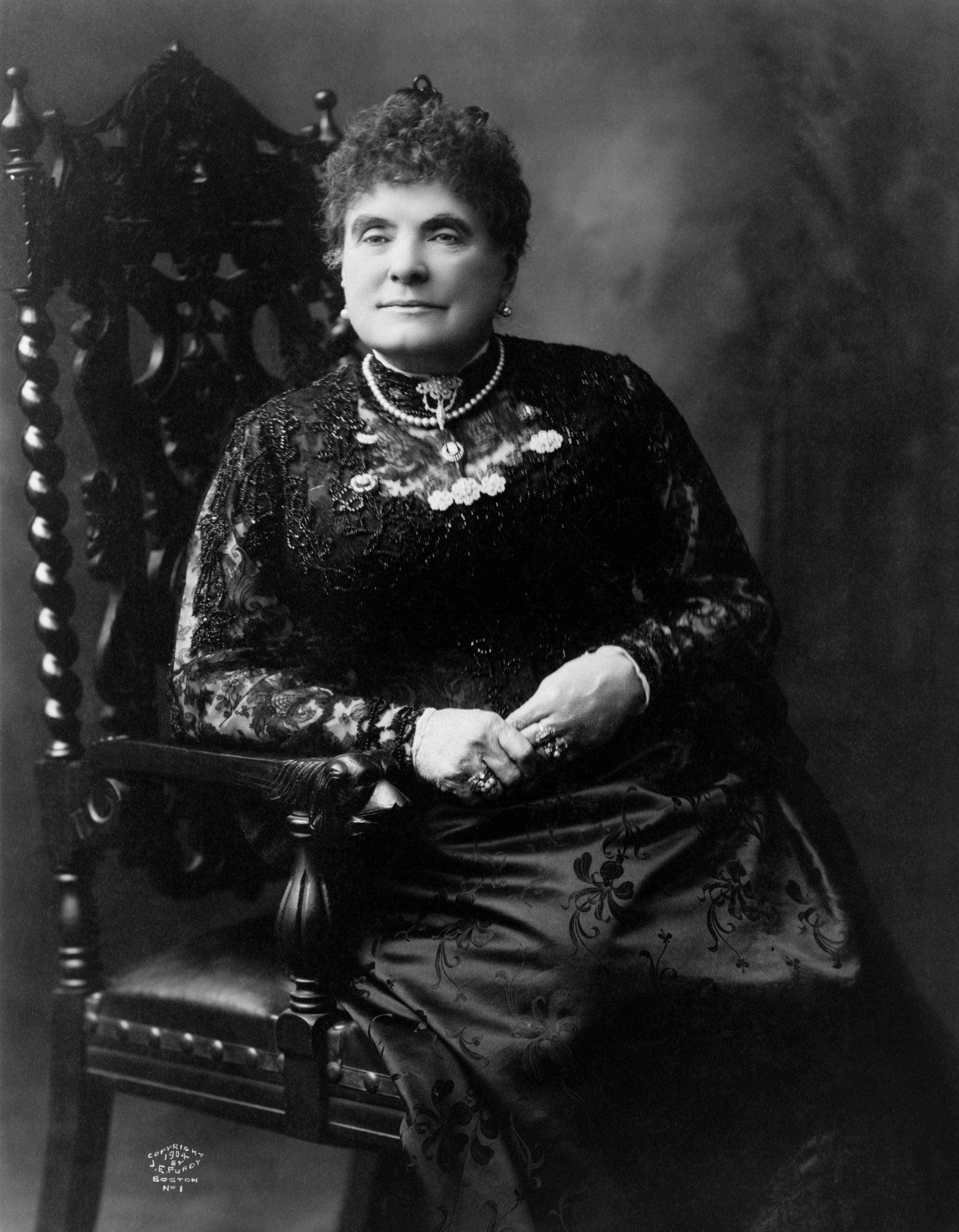 Louise Chandler Moulton, three-quarter length portrait, seated, facing slightly left.